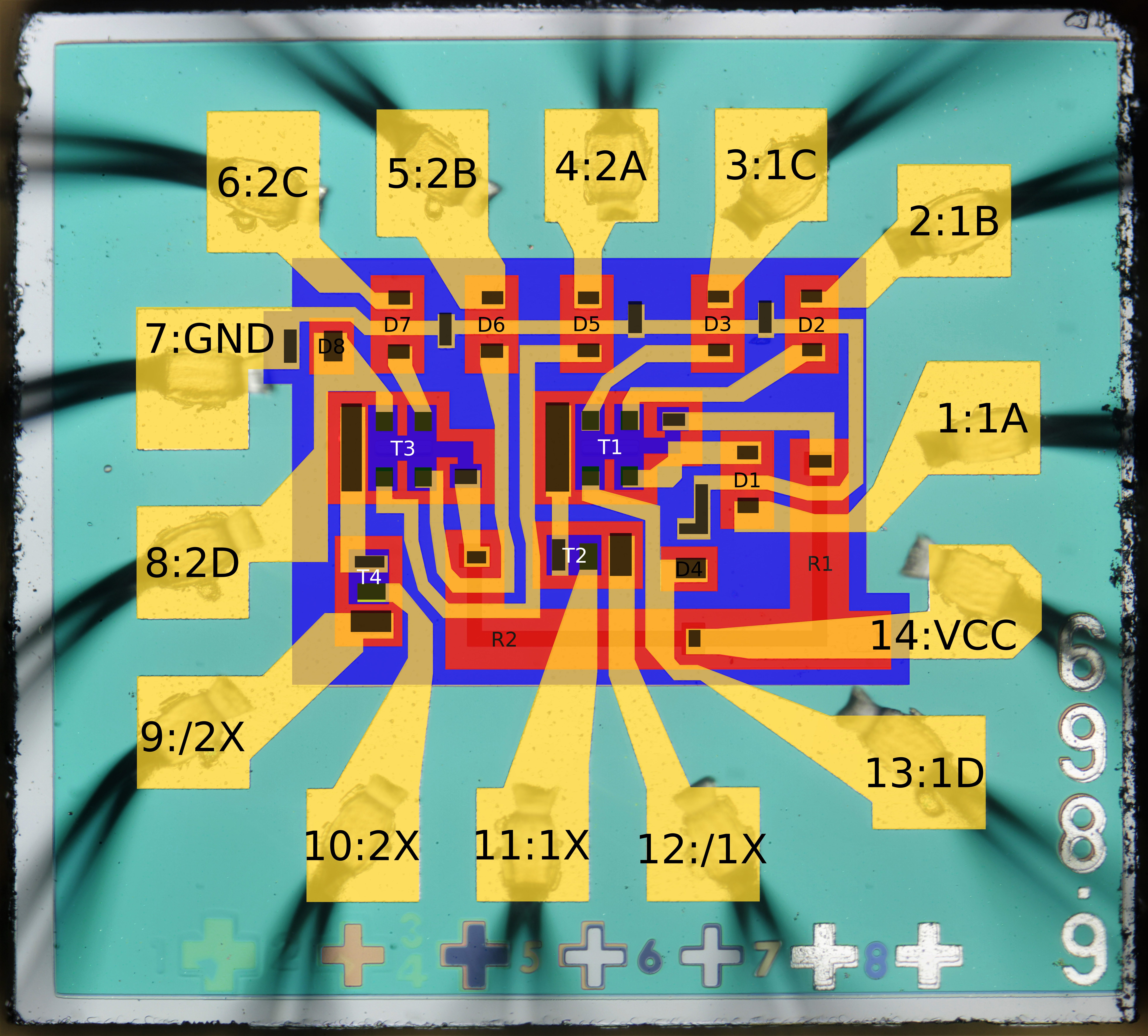 Annotated die photo of a Sylvania 7460 chip, datecode 935.